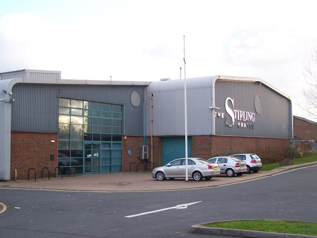 The Sterling Centre, Leisure Facility On Maidstone Road (B2097). A multi-purpose sports hall. Has 5-a-side, netball, tennis courts, which are floodlit. Also has a fitness suite, licensed bar and function rooms. Run by Medway Council. Has a special relationship with Royal Mail, whose distribution centre (on demolished Fort Bridgewood) is opposite the centre.